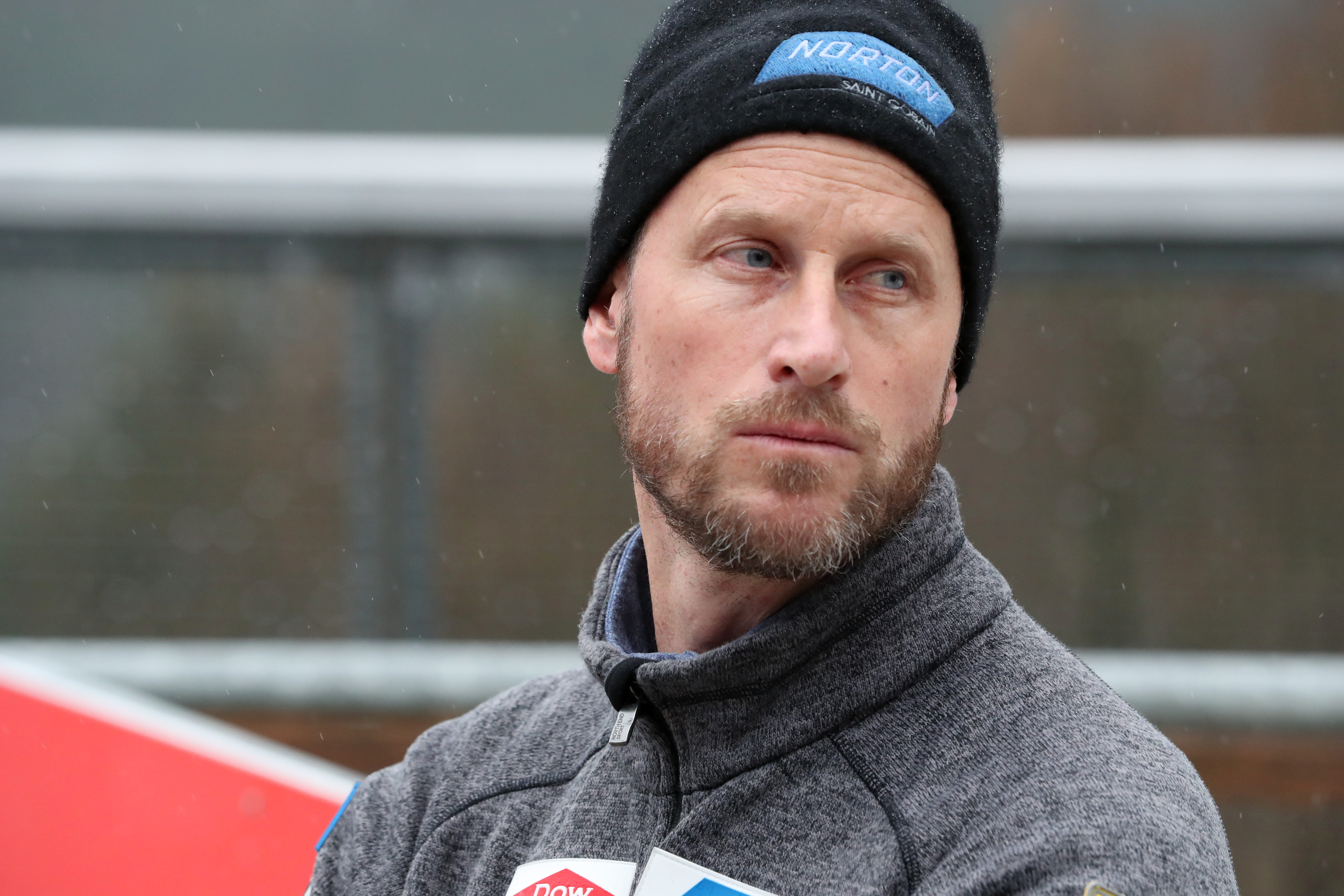 Women´s Nationscup race in Winterberg: Trainer US